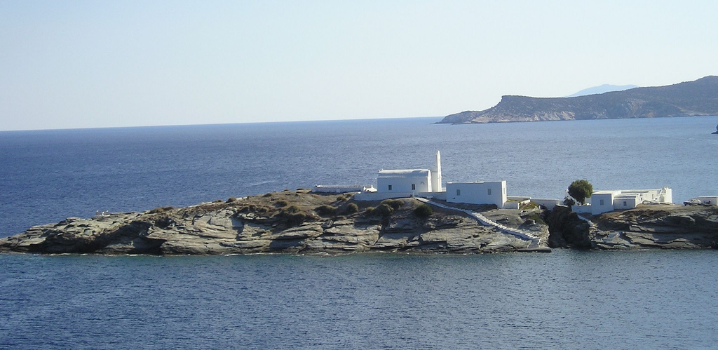 Chryssopigi monastery Sifnos Cyclades